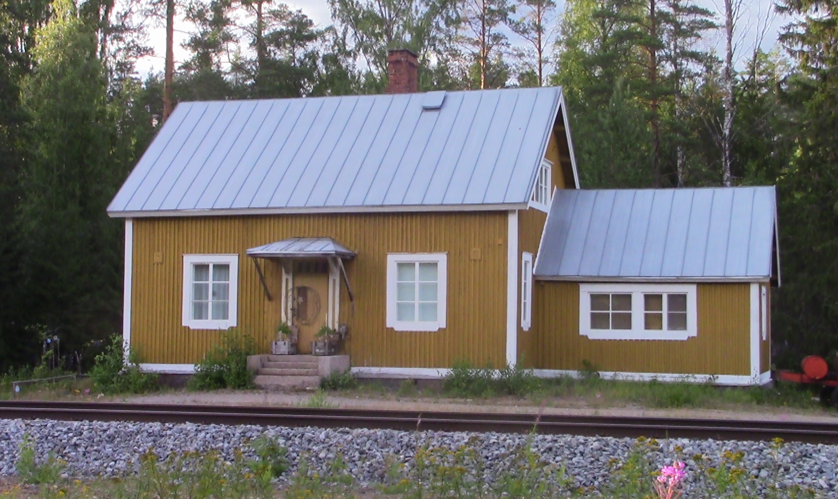 Kaleton railway station in Keuruu, Finland. The station is located along Haapamäki-Jyväskylä railway.